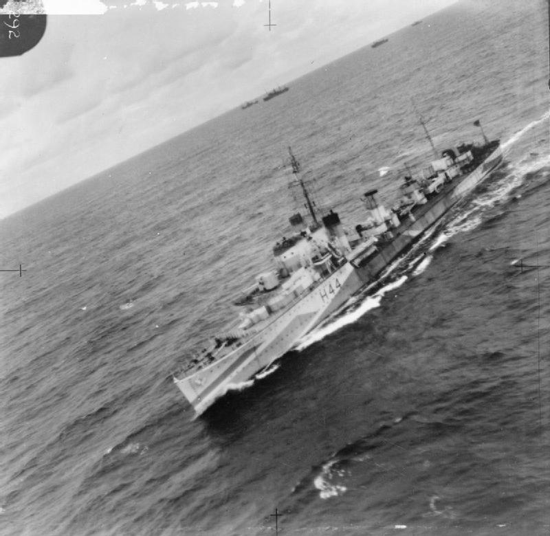 Aerial photograph of British destroyer HMS Highlander (H44) underway